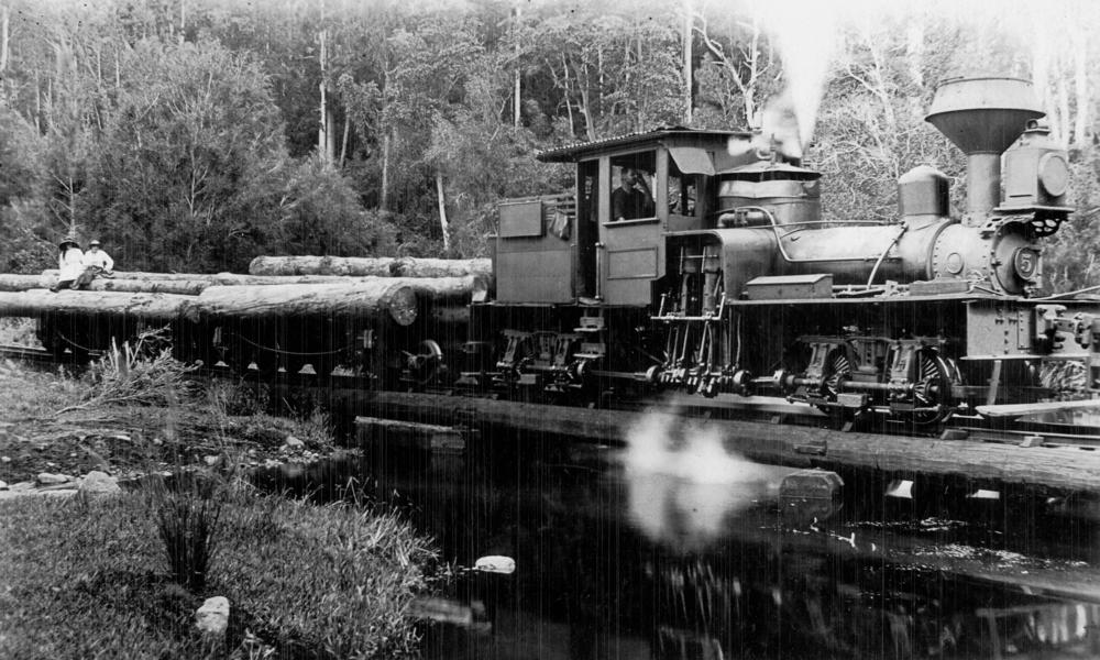 Shay Locomotive 5, part of the Canungra Pine Creek Tramway, ca. 1914. Two cylinder Shay locomotive on low level bridge, part of the Canungra Pine Creek Tramway. The Shay was built by Lima, USA, in 1902 for the North Mount Lyell Mining Company of Tasmania where it received its number 5. It had nine inch bore cylinders and eight inch strokes. Wheels were 27 inches in diameter and it weighed 16 tons. Locomotive was fitted with a bell and a large oil headlamp. The locomotive was run on cordwood and dead timber. By 1915, the engine was converted to coal firing. Load of three flat bed wagons with logs. (Description supplied with photograph.).